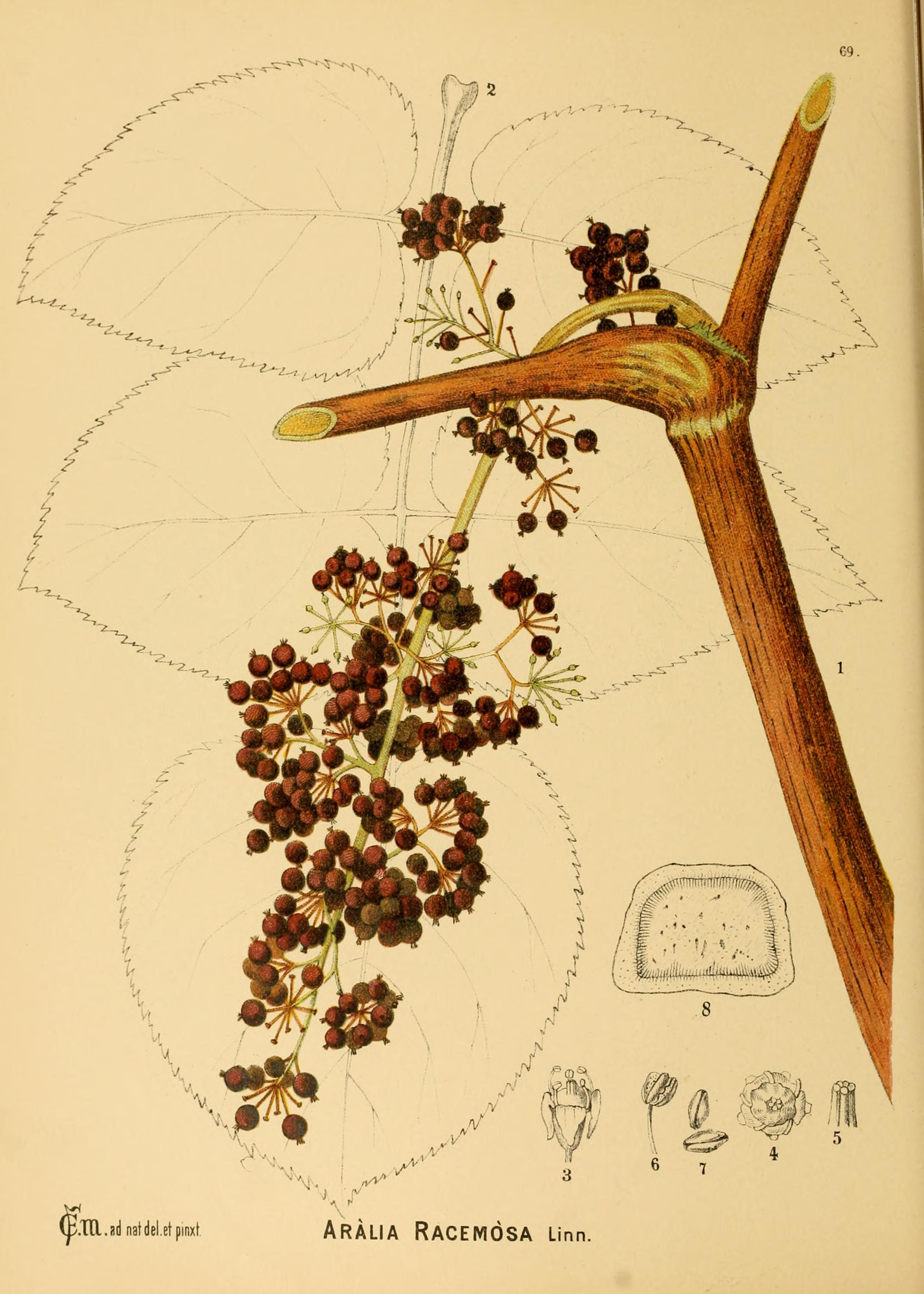 Title: American medicinal plants; : an illustrated and descriptive guide to the American plants used as homopathic remedies : their history, preparation, chemistry, and physiological effects. Year: 1887 (1880s) Authors: Millspaugh, Charles Frederick, 1854-1923 Subjects: Botany, Medical; Botany; Botany; Botany Publisher: New York ; Philadelphia : Boericke & Tafel. Text Appearing Before Image: ' Text Appearing After Image: ^m. ad natdei.etpinxt. ARALIA RaCEMOSA Linn.